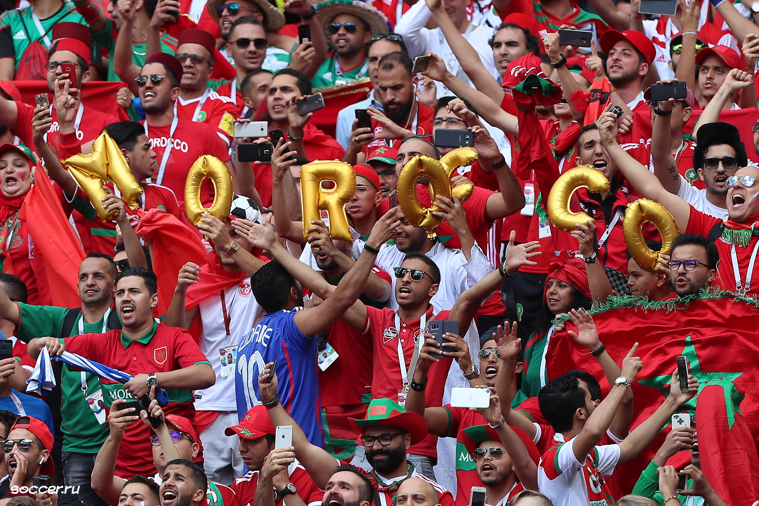 Portugal-Morocco match, 2018 FIFA World Cup